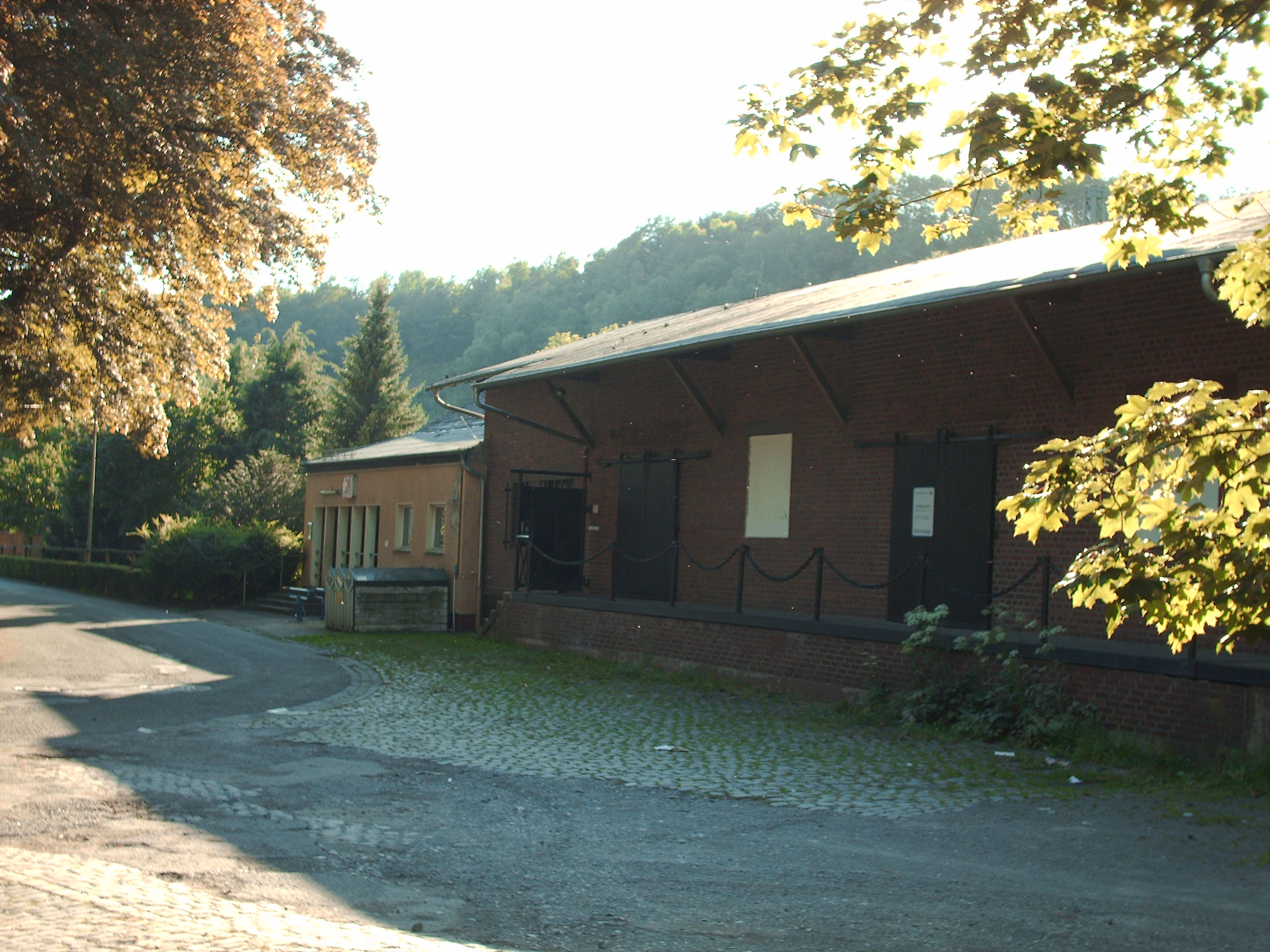 Eiserfeld (Sieg) station, Siegen, Germany check usage